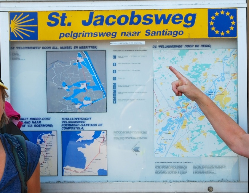 Signboard of St James Way in Thorn, Netherlands